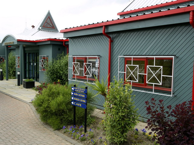 Goole Waterway Museum, Goole, East Riding of Yorkshire, England.